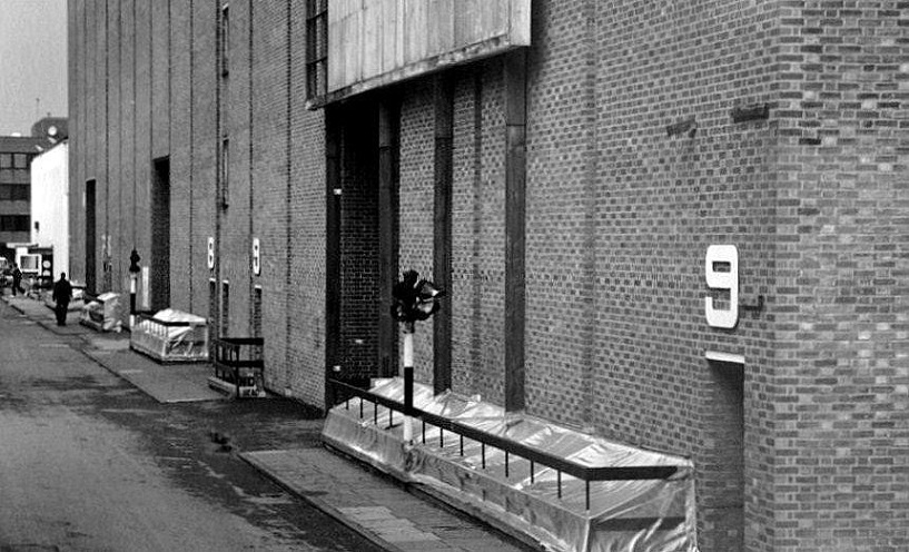 A view into Elstree Studios lot at Borehamwood, London.